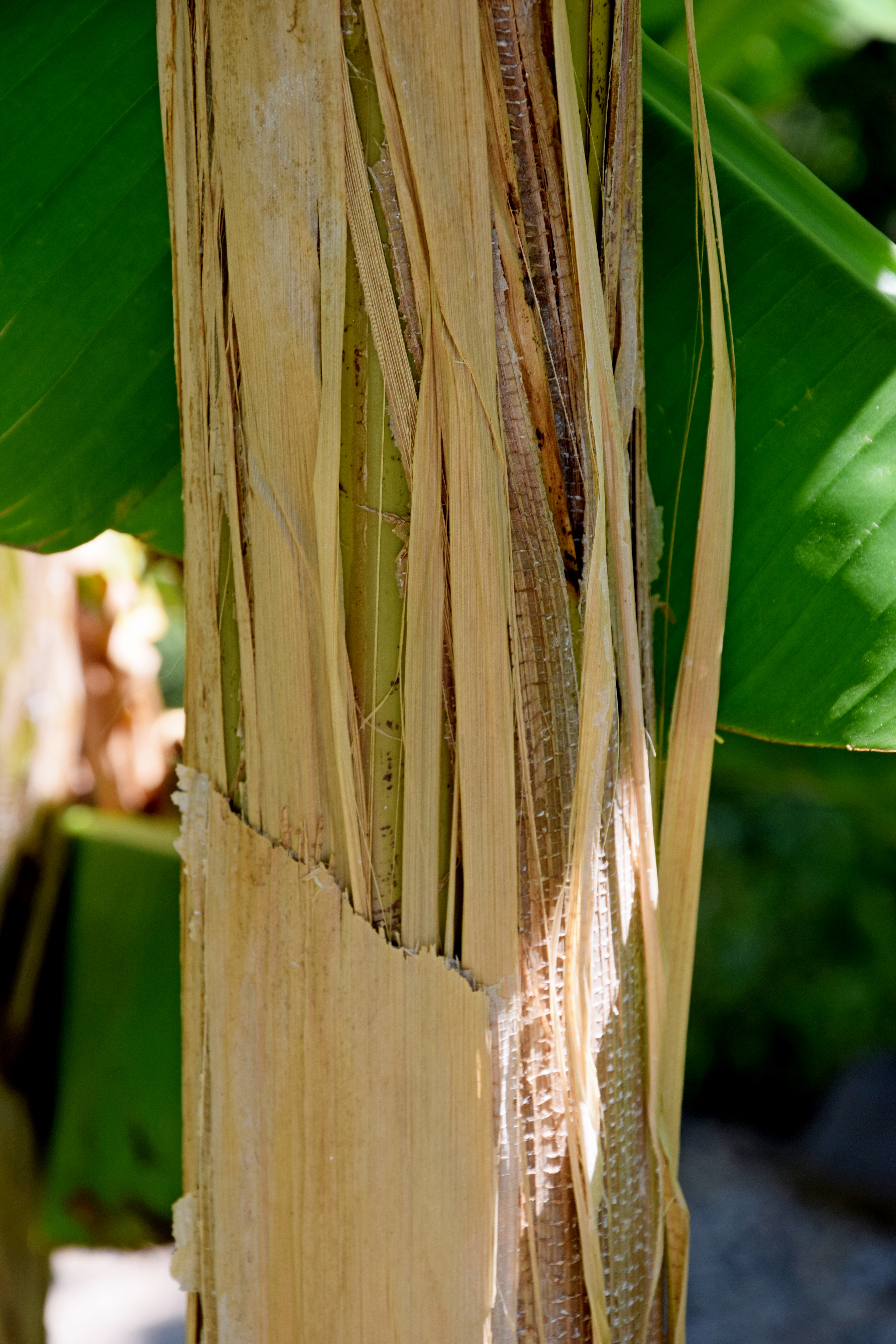 Musa basjoo in Jardin aux Plantes parfumées la Bouichere, Limoux, Aude, France